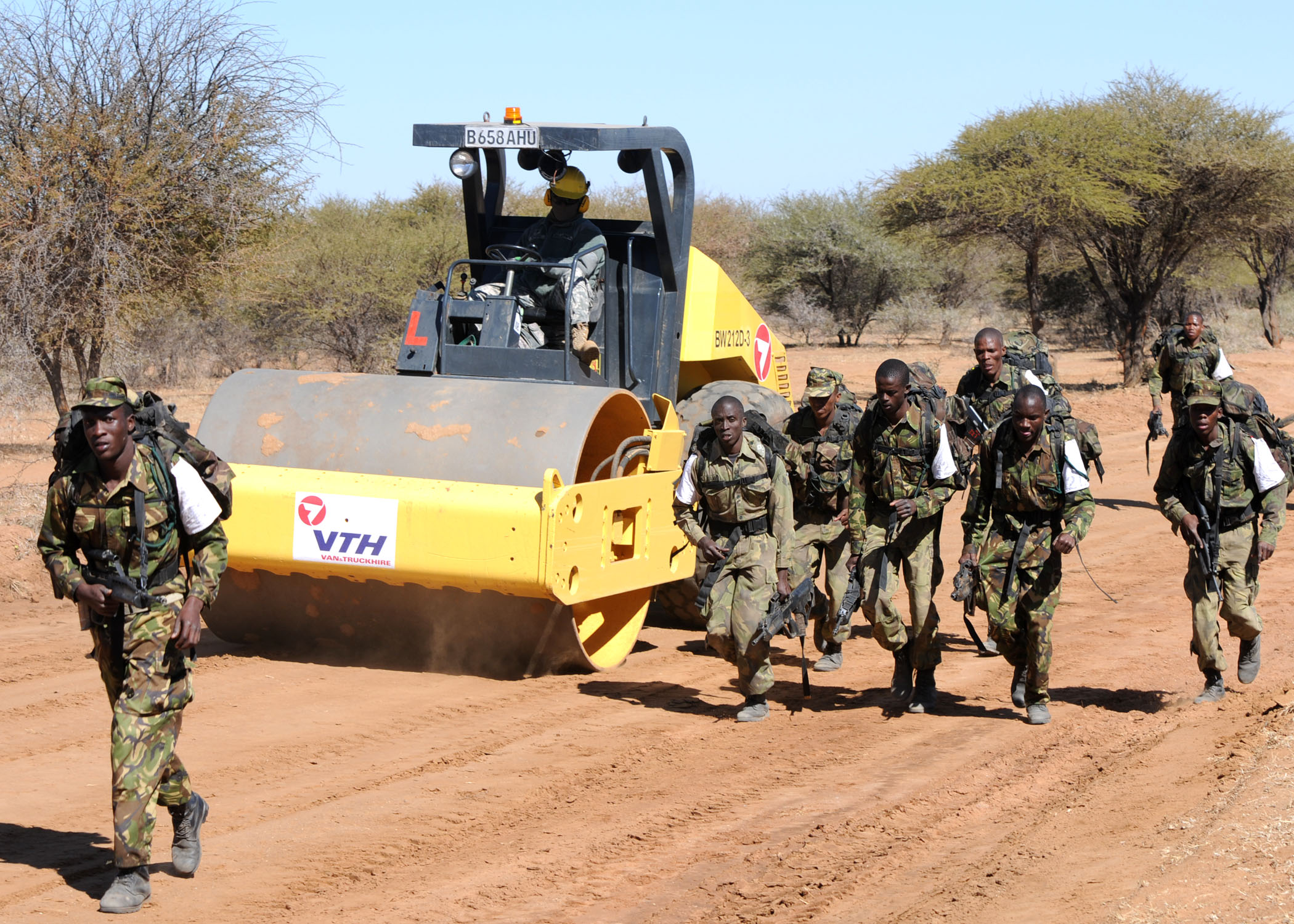 Soldiers from the Botswana Defense Force utilize the road to Mkankake Range as the 631st Engineers Company of Lawrenceville, Ill. assists the BDF engineers with improvements to the existing road used for access to range near the small village of Mkankake. The sand road washes out during the rainy season creating deep crevices in the road making it impassble. The engineers are participating in Southern Accord 2012 an annual combined, joint exercise that brings together U.S. military and BDF to conduct various operations to enhance military capabilities and interoperability. (U.S. Army Africa photo by by Sgt. James D. Sims) To learn more about U.S. Army Africa visit our official website at Official Twitter Feed: Official Vimeo video channel: Join the U.S. Army Africa conversation on Facebook